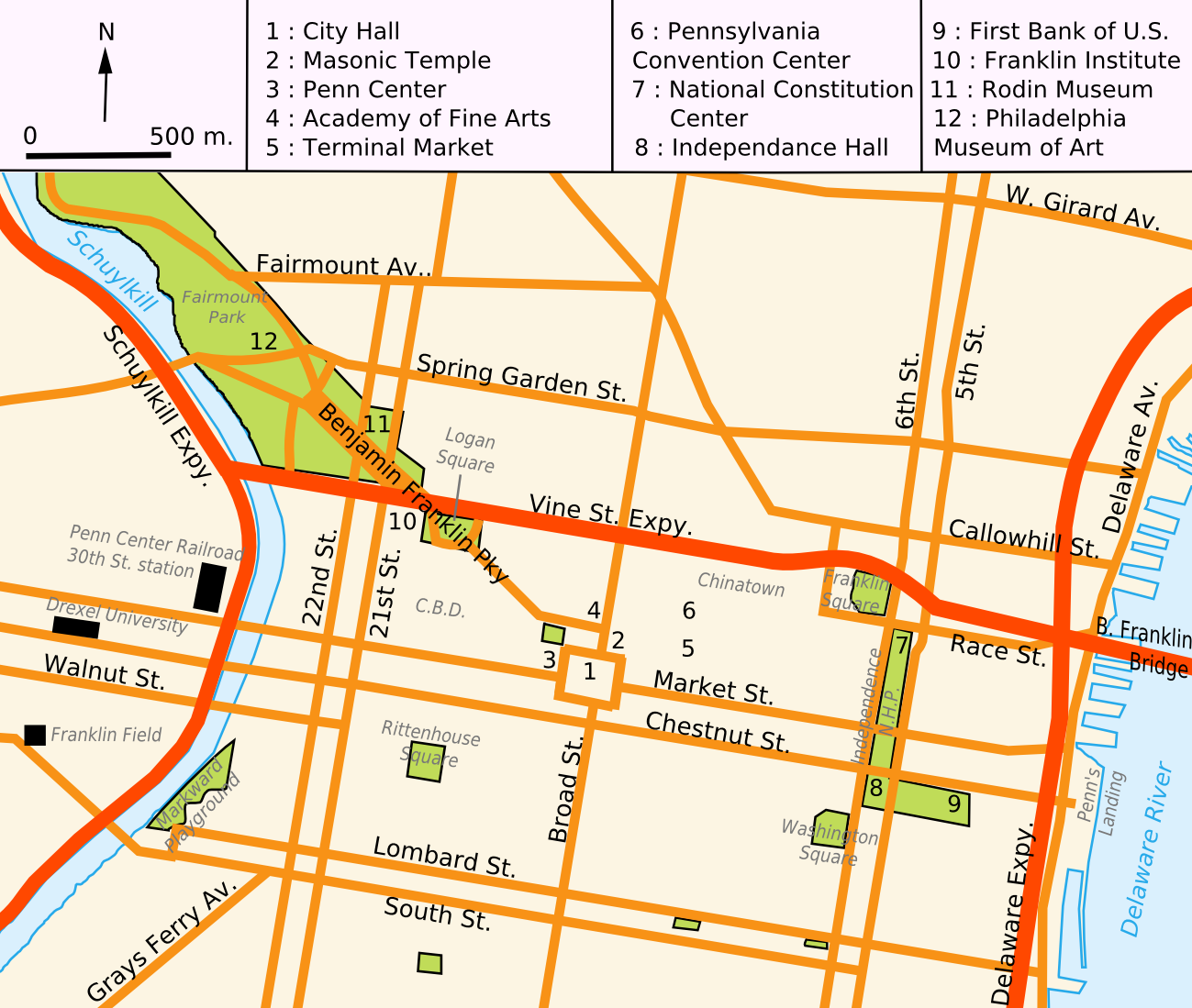 Map of Philadelphia (USA)